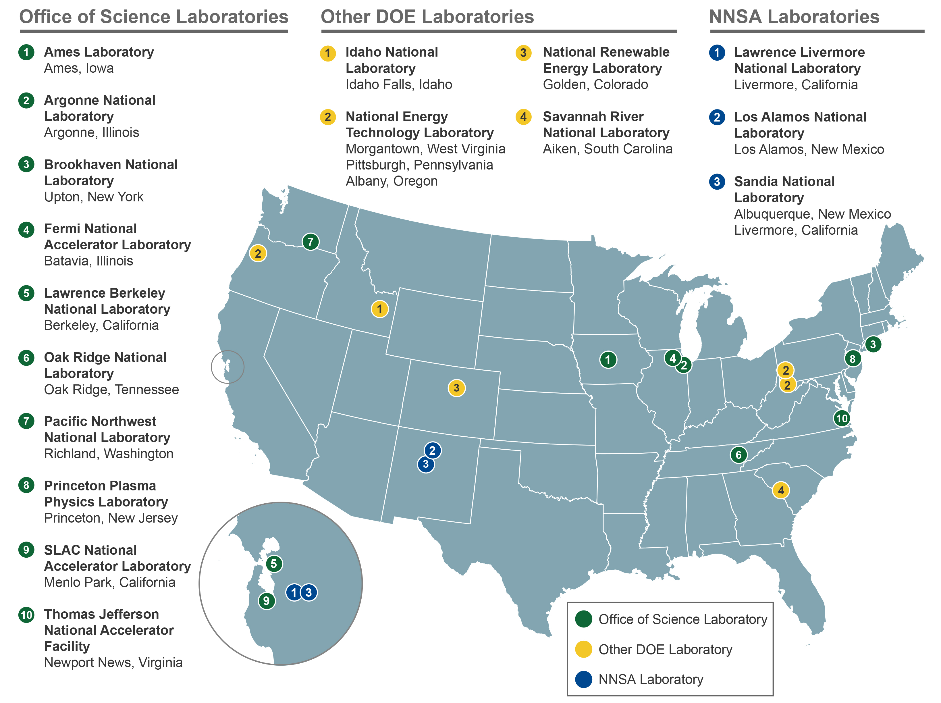 Map of U.S. Department of Energy's national laboratories on 2015